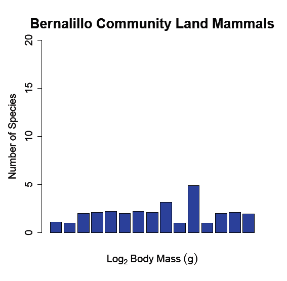 graph of bernalillo commnunity land mammals by size class